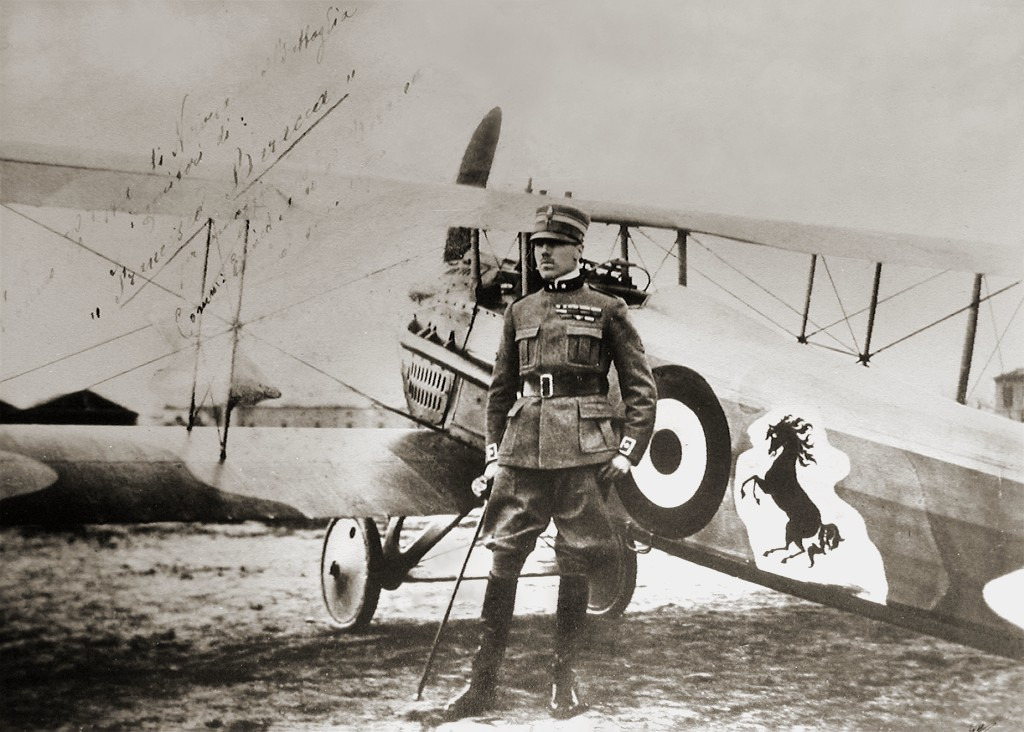 Francesco Baracca posing by his SPAD S.XIII. Latest possible photo date is June 1918 (date of death).